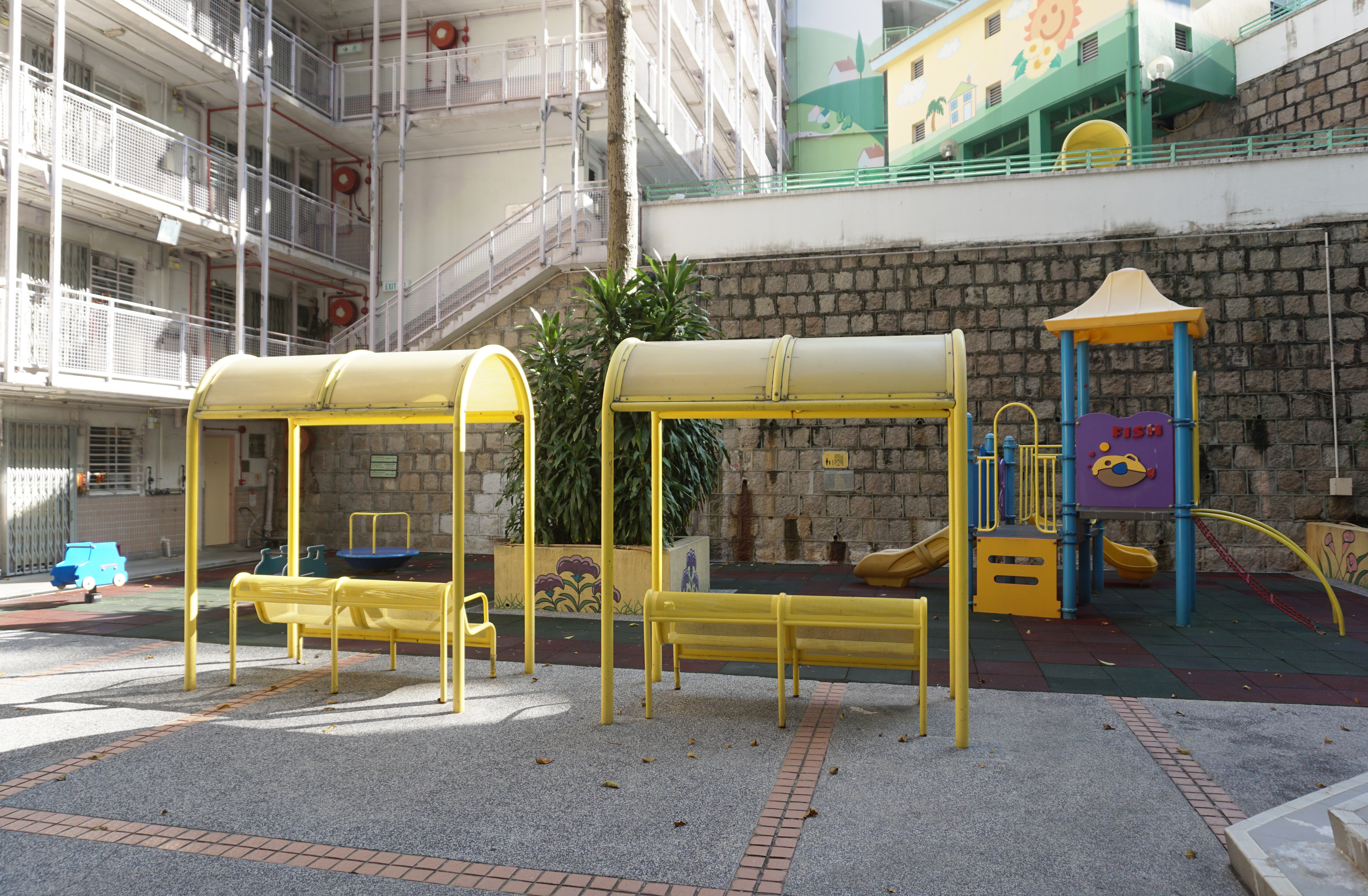 Sai Wan Estate in Kennedy Town, Hong Kong.